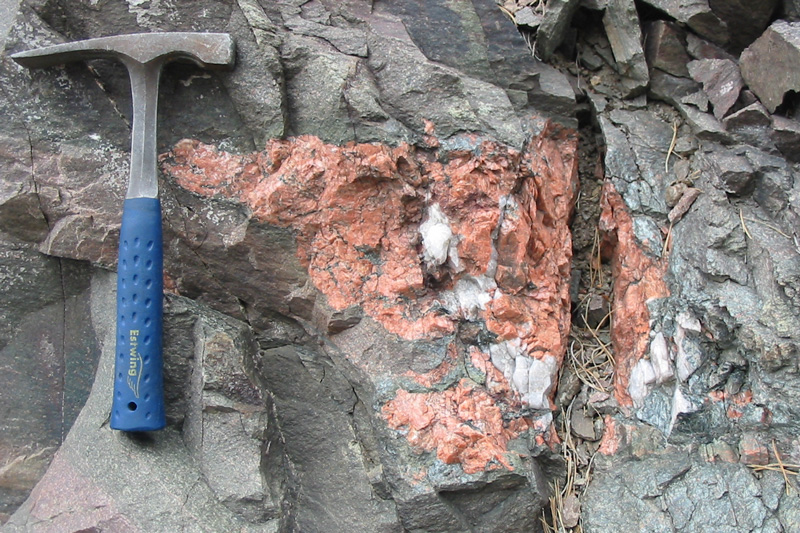 Vein of granitic pegmatite within metamorphic rocks. Red mineral is potassium feldspar, white is quartz. Photo is taken in western Sweden.